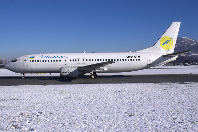 Dniproavia Boeing 737-400 UR-KIV